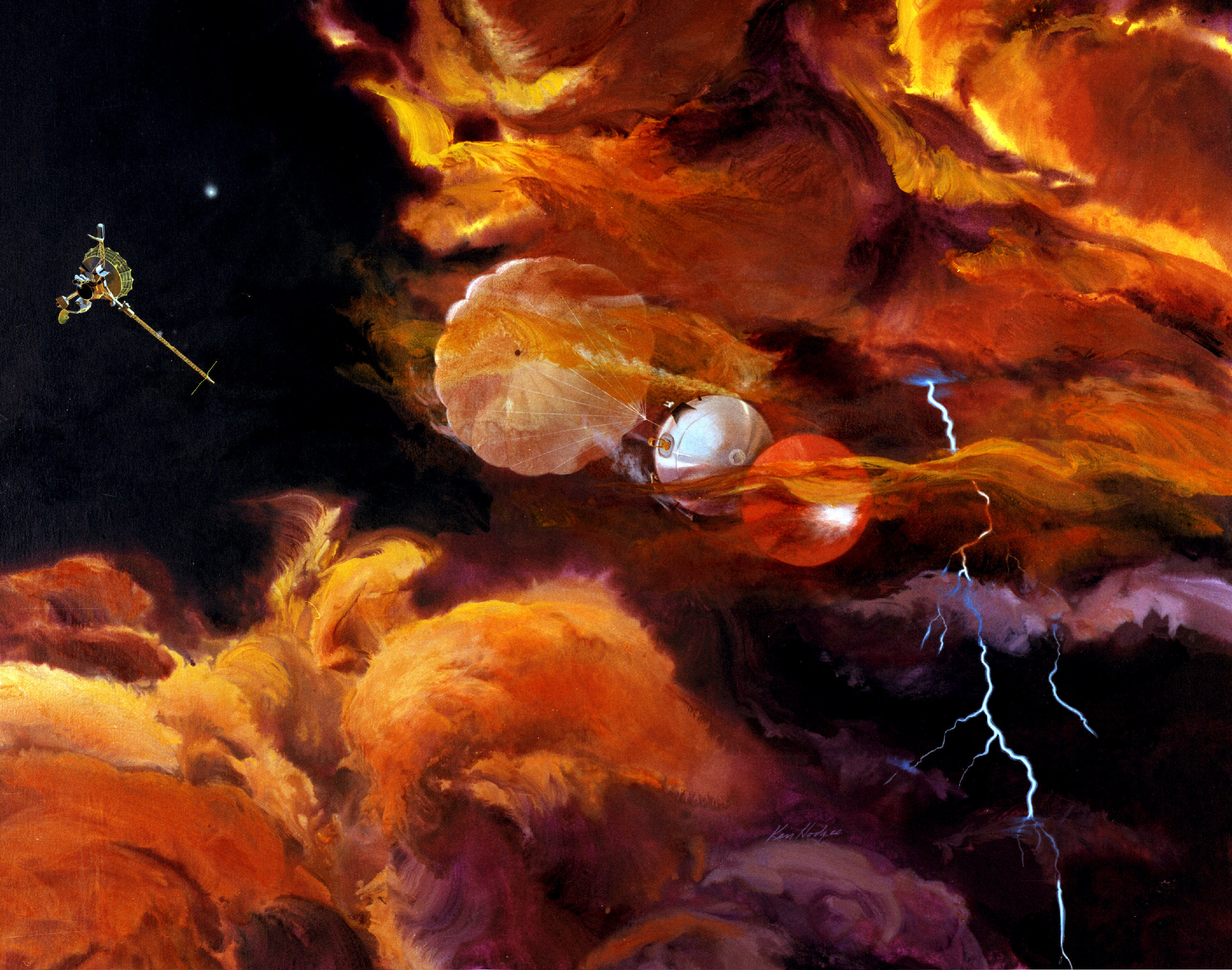 An artist's impression of the Galileo probe descending into Jupiter's atmosphere. The probe was the first to sample the atmosphere of a gas planet. It measured temperature, pressure, chemical composition, cloud characteristics, sunlight and energy internal to the planet, and lightning. During its 58-minute life, the probe penetrated 200 km (124 miles) into Jupiter's violent atmosphere before it was crushed, melted, and/or vaporized by the pressure and temperature of the atmosphere.